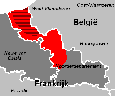 Red: French Flanders; hatched: the region in France where West Flemish dialects are spoken